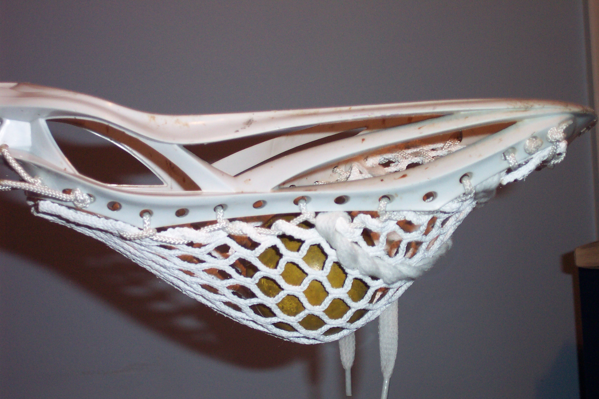 A Brine Swerve lacrosse head with a ball.